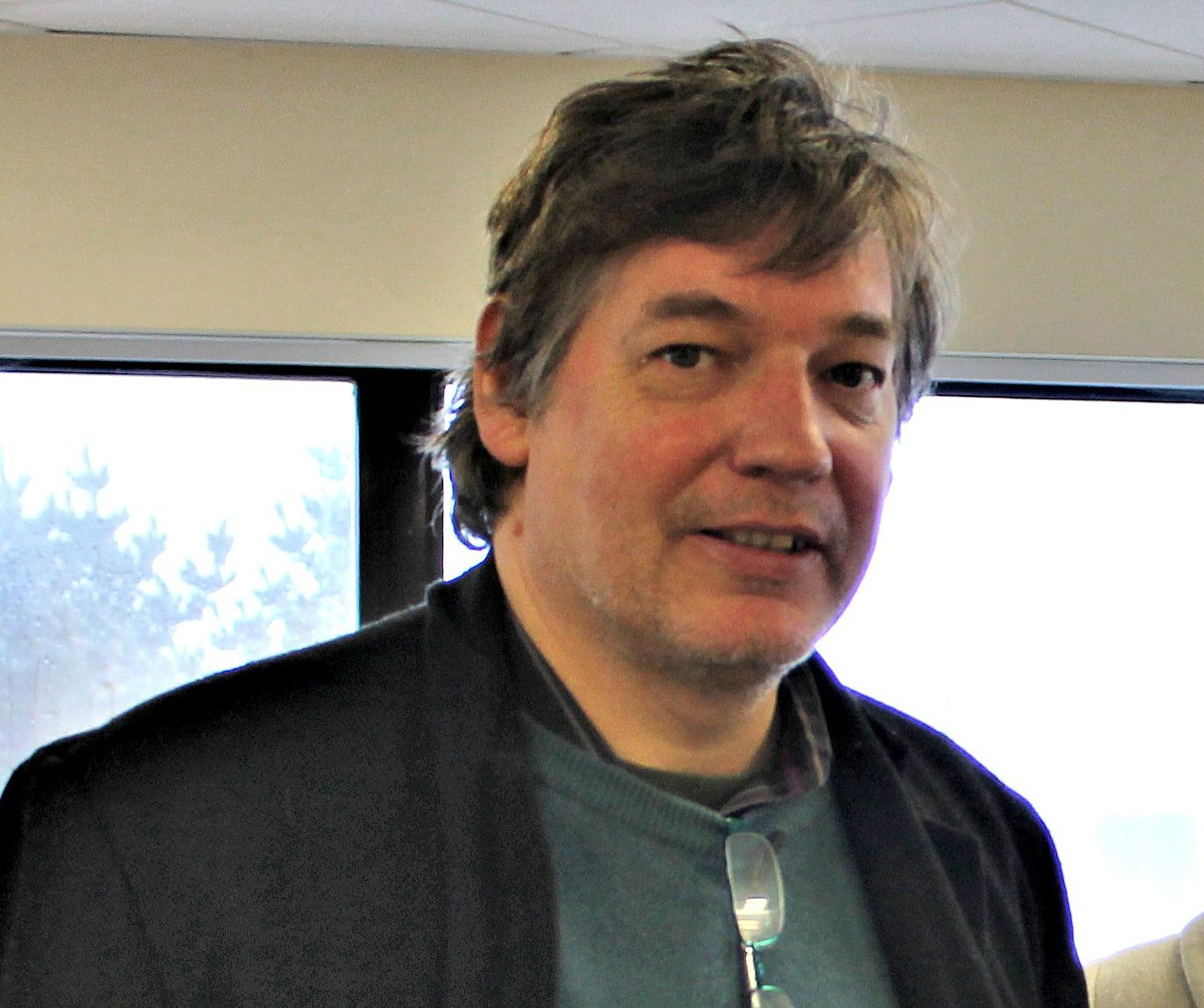 Dr Tom Cheesman, Swansea University, South Wales. Cropped from: Editathon at Llyfrgell Abertawe Library 03.JPG